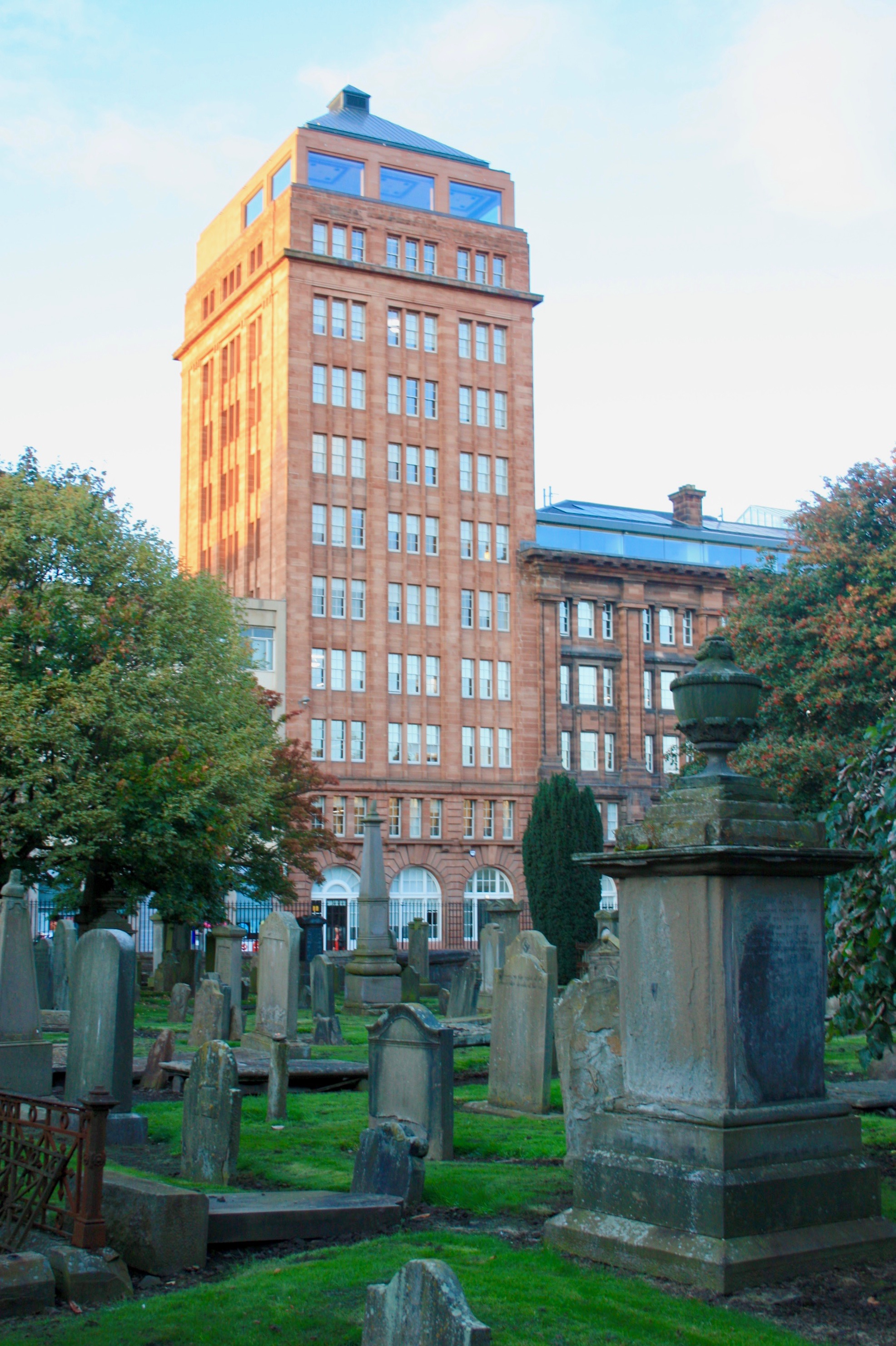 The tower extension to DC Thomson as seen from The Howff, Dundee